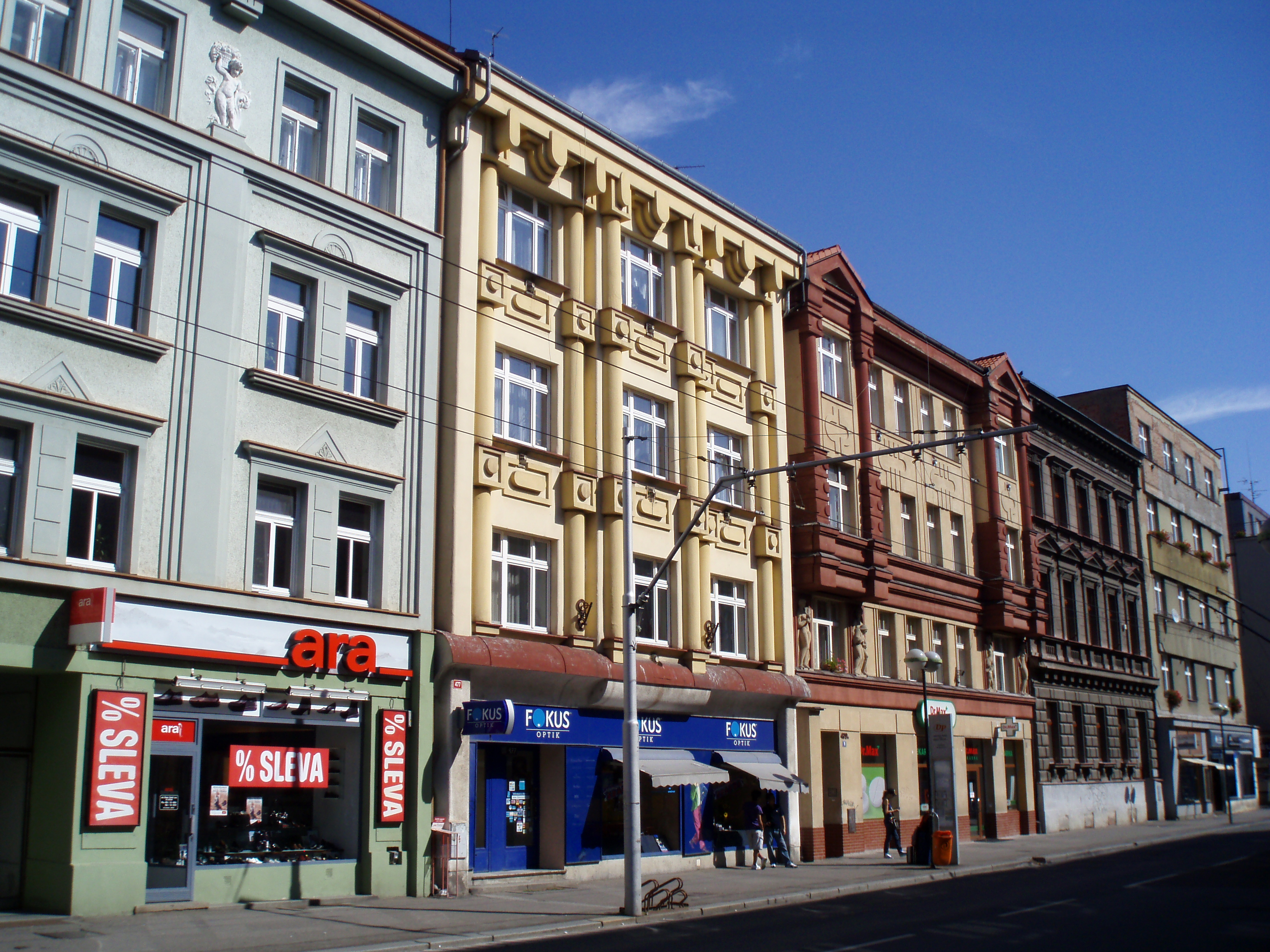 Avenue of Dukla in Hradec Králové (Czechia)